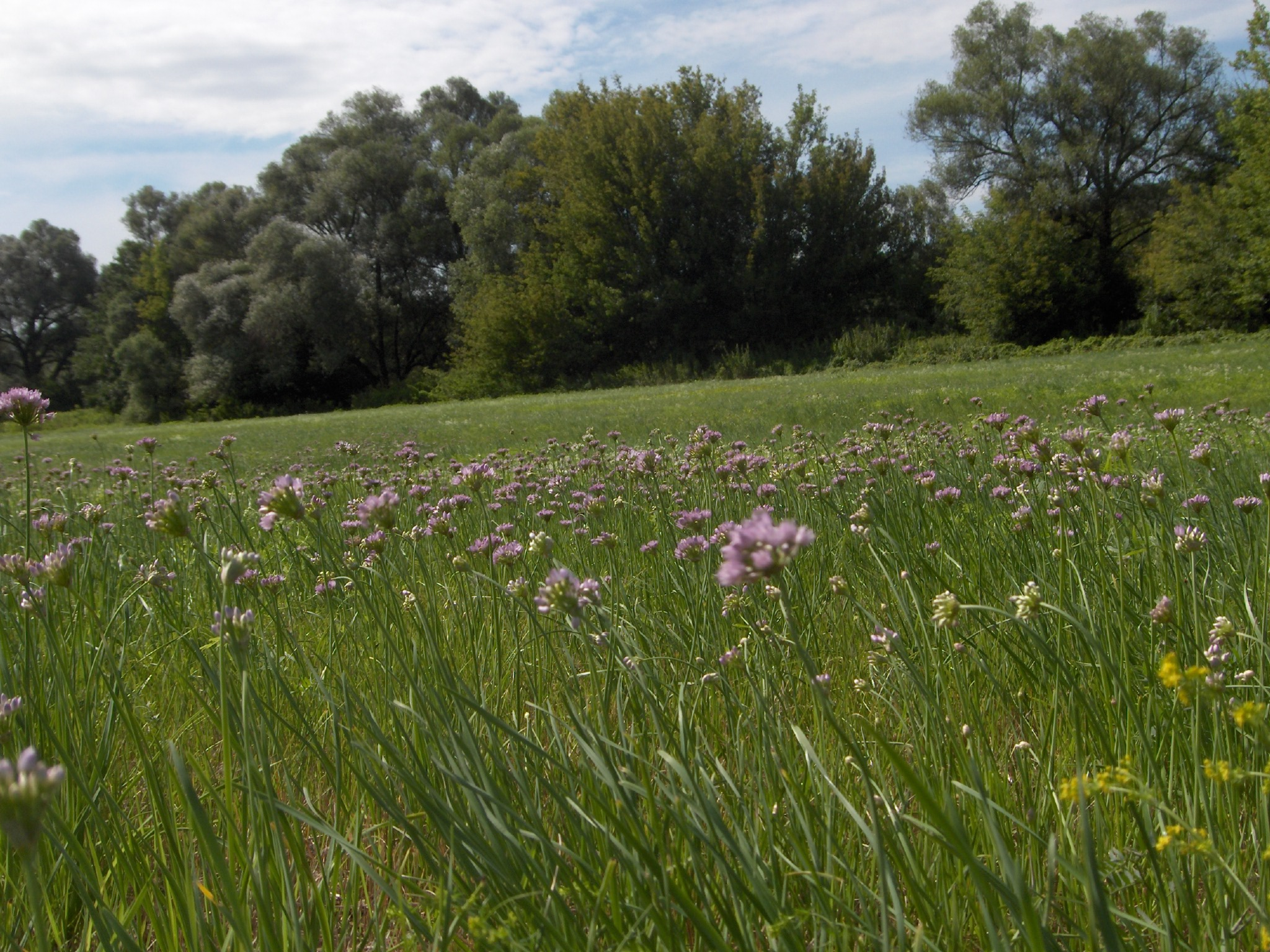 Allium angulosum-field on a marsh-meadow near the river of Ipoly (Hungary)